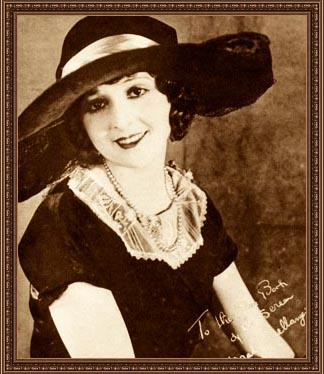 Publicity photo of Madge Bellamy from The Blue Book of the Screen by Ruth Wing, editor